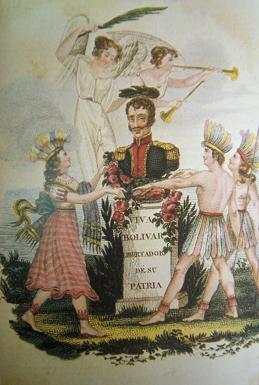 “La Victoria de Junín” by J.J. Olmedo.